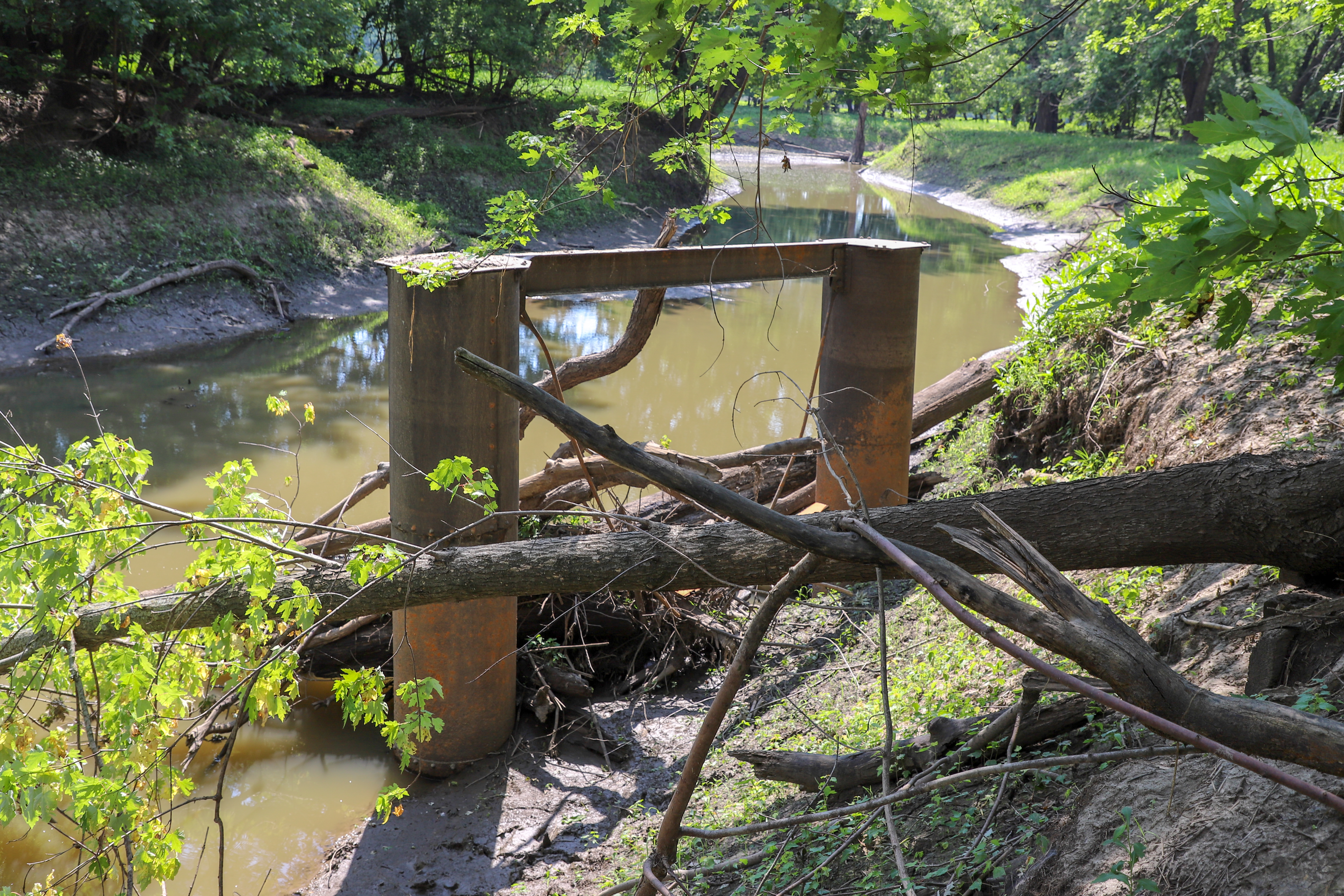 The Coal Creek Bridge, a Pratt pony truss bridge, located southeast of Carlisle, Iowa, United States. Originally an 88-foot (27 m) span that carried traffic on Fillmore Street over Coal Creek. The bridge was commissioned by the Warren County Board of Supervisors in 1889, and built by the Seevers Manufacturing Company of Oskaloosa, Iowa. It was listed on the National Register of Historic Places in 1998. It was taken down in 2008.